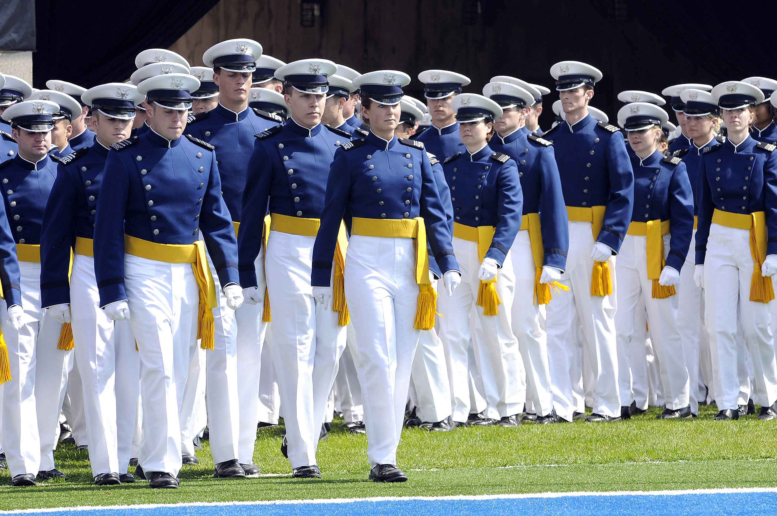 The U.S. Air Force Academy's Class of 2009 enters Falcon Stadium during its graduation ceremony in Colorado Springs, Colo., May 27, 2009. During the ceremony, 1,046 cadets received their commissions as second lieutenants.